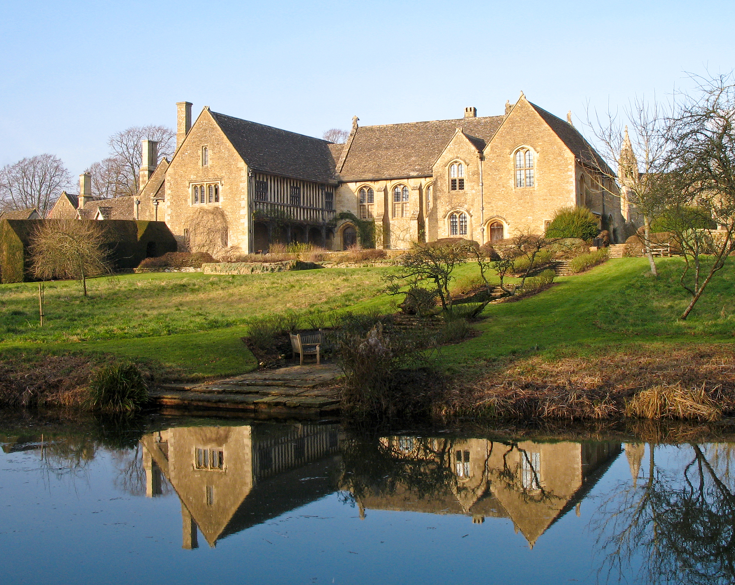 A view of Great Chalfield manor, in Wiltshire, taken late on a winter afternoon. Flickr offers a number of other photographers' versions of the same view.